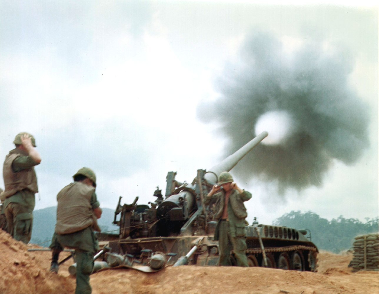 SGT Max Cones (gunner) fires a M107, 175mm self-propelled gun, Btry C, 1st Bn, 83rd Arty, 54th Arty Group, Vietnam, 1968.